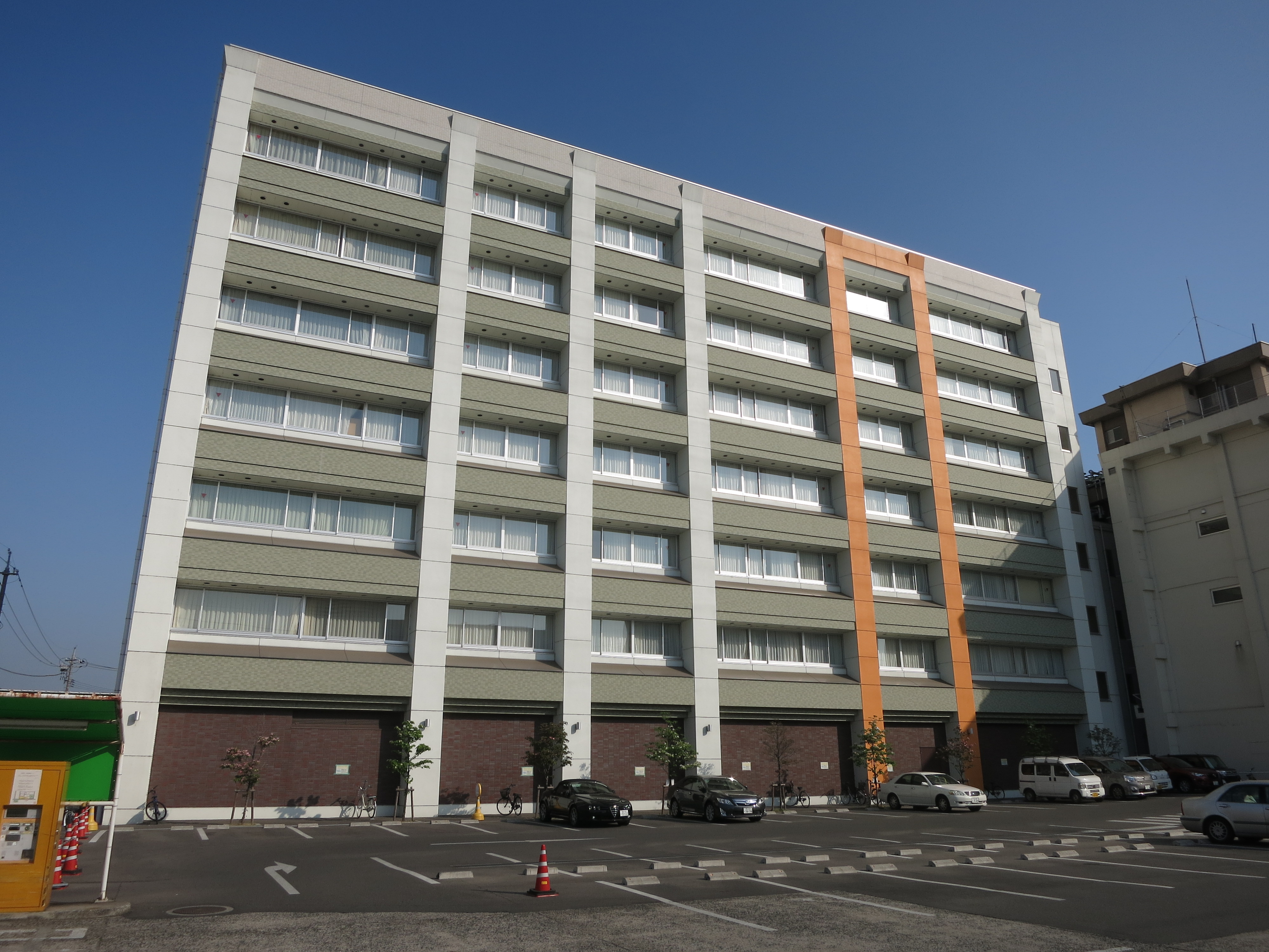 National_Hospital_Organization_Fukuyama_Medical_Center